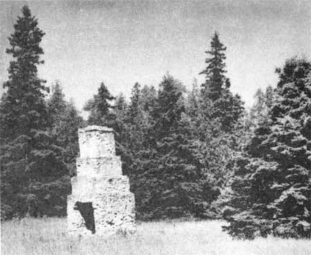 Fort Drummond Site, Drummond Island MI chimney ruin